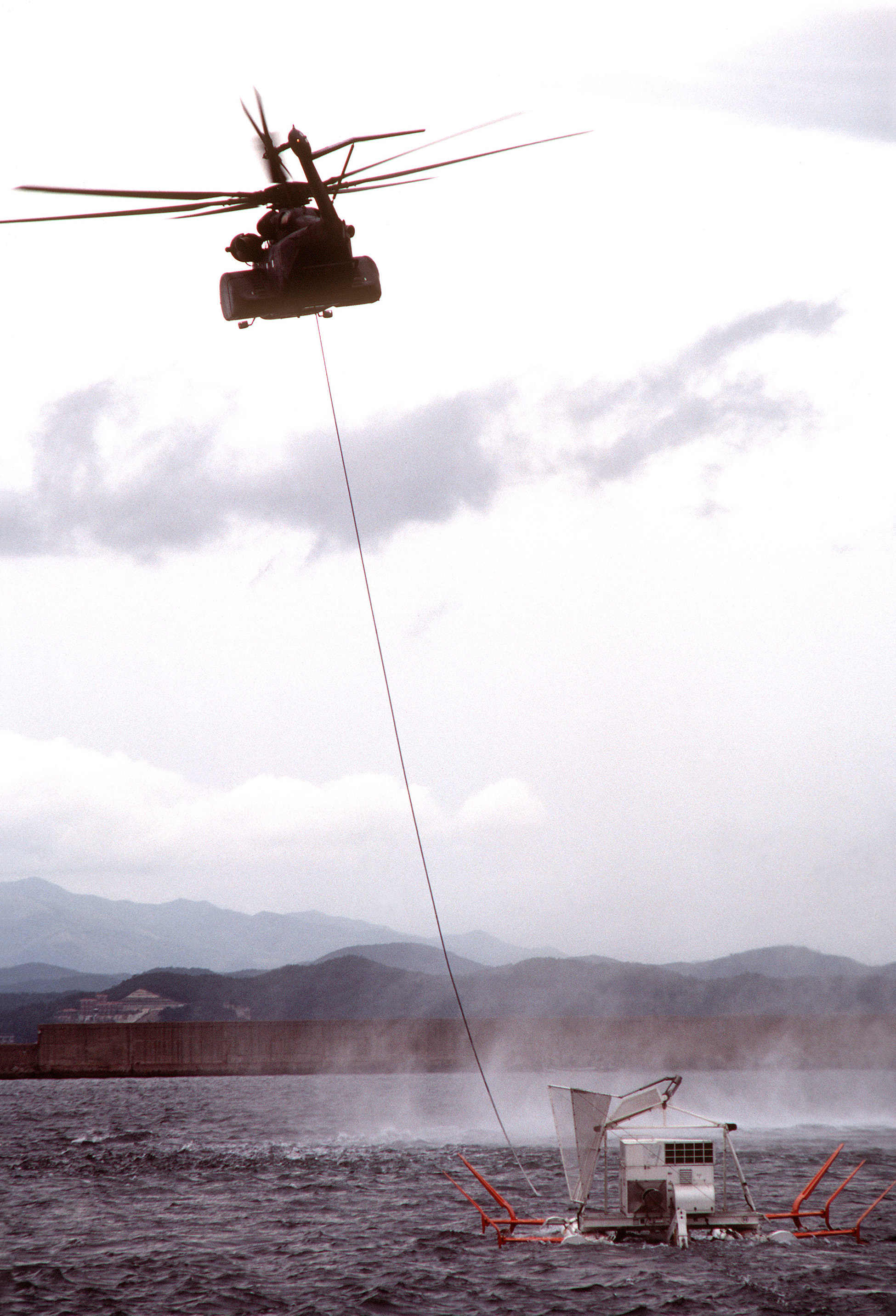 A Helicopter Mine Countermeasure Squadron 15 (HM-15) MH-53E Sea Dragon helicopter tows a Mark 105 hydrofoil minesweeping sled while conducting simulated mine clearing operations in the harbor during VALIANT BLITZ '89.